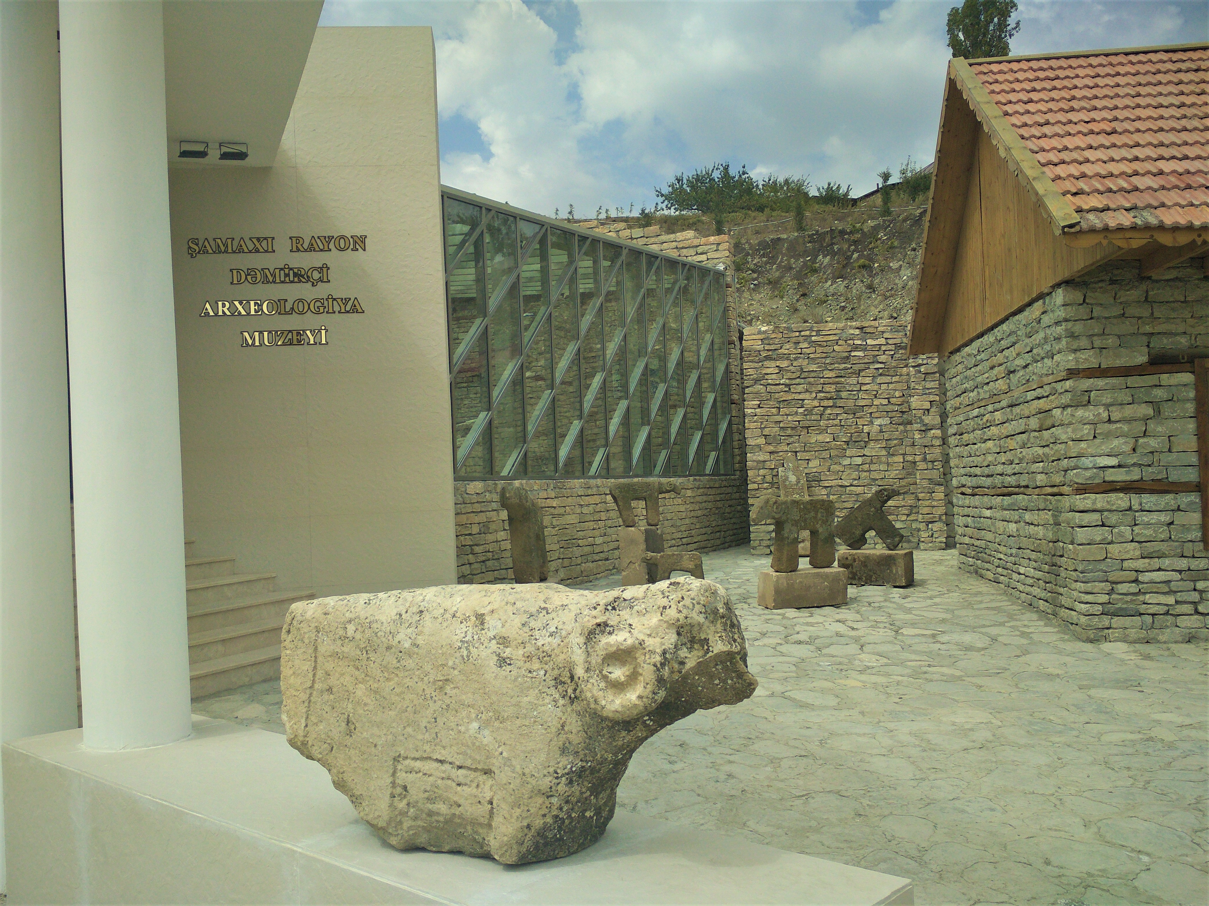 Demirchi Archaeological Museum constructed in Shamakhy district following the Heydar Aliyev Foundation’s initiative.